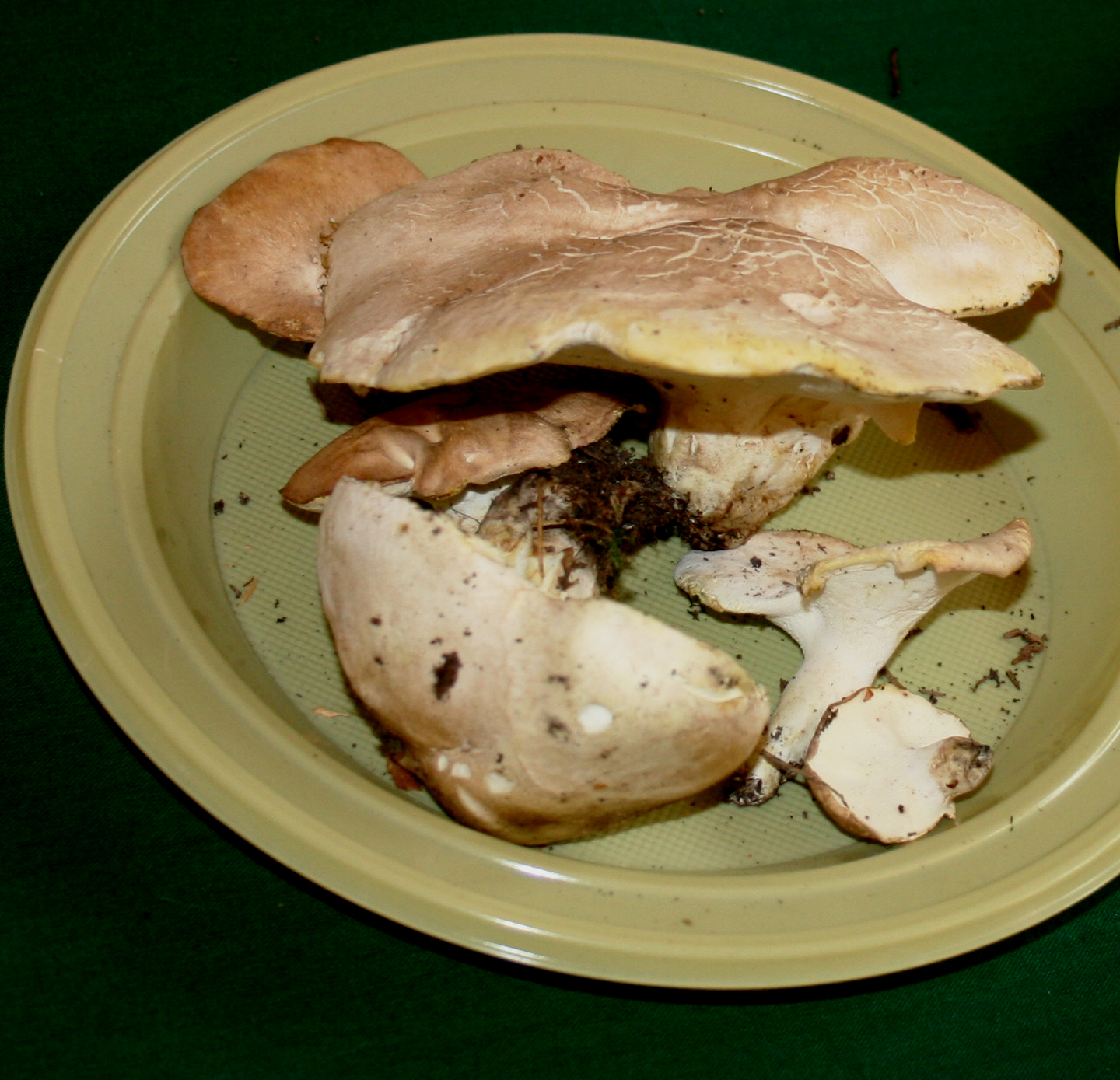 Albatrellus ovinus on Prague international mushroom exhibition 2008, Czech Republic